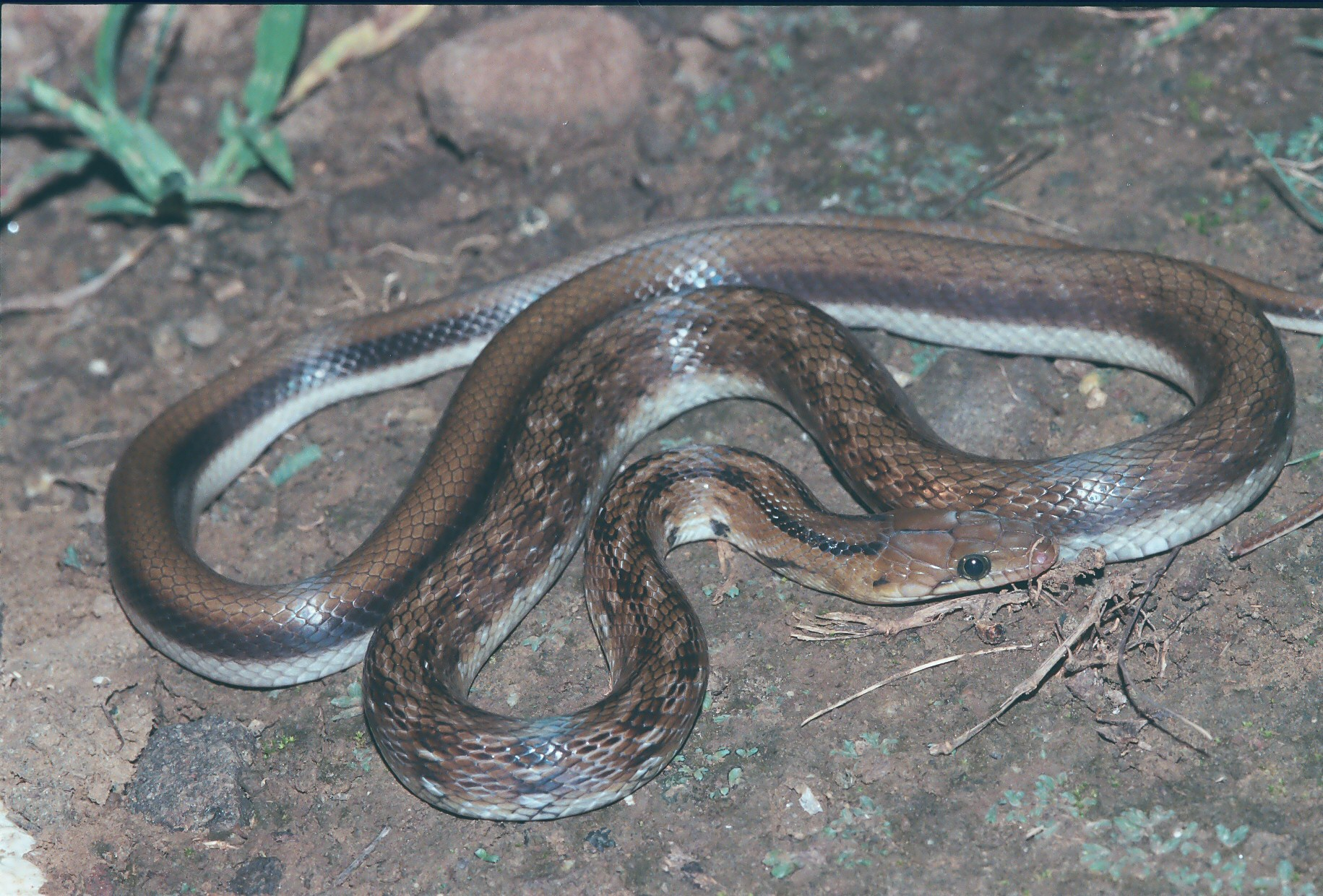 Non poisonus snake and common in Maharashtra